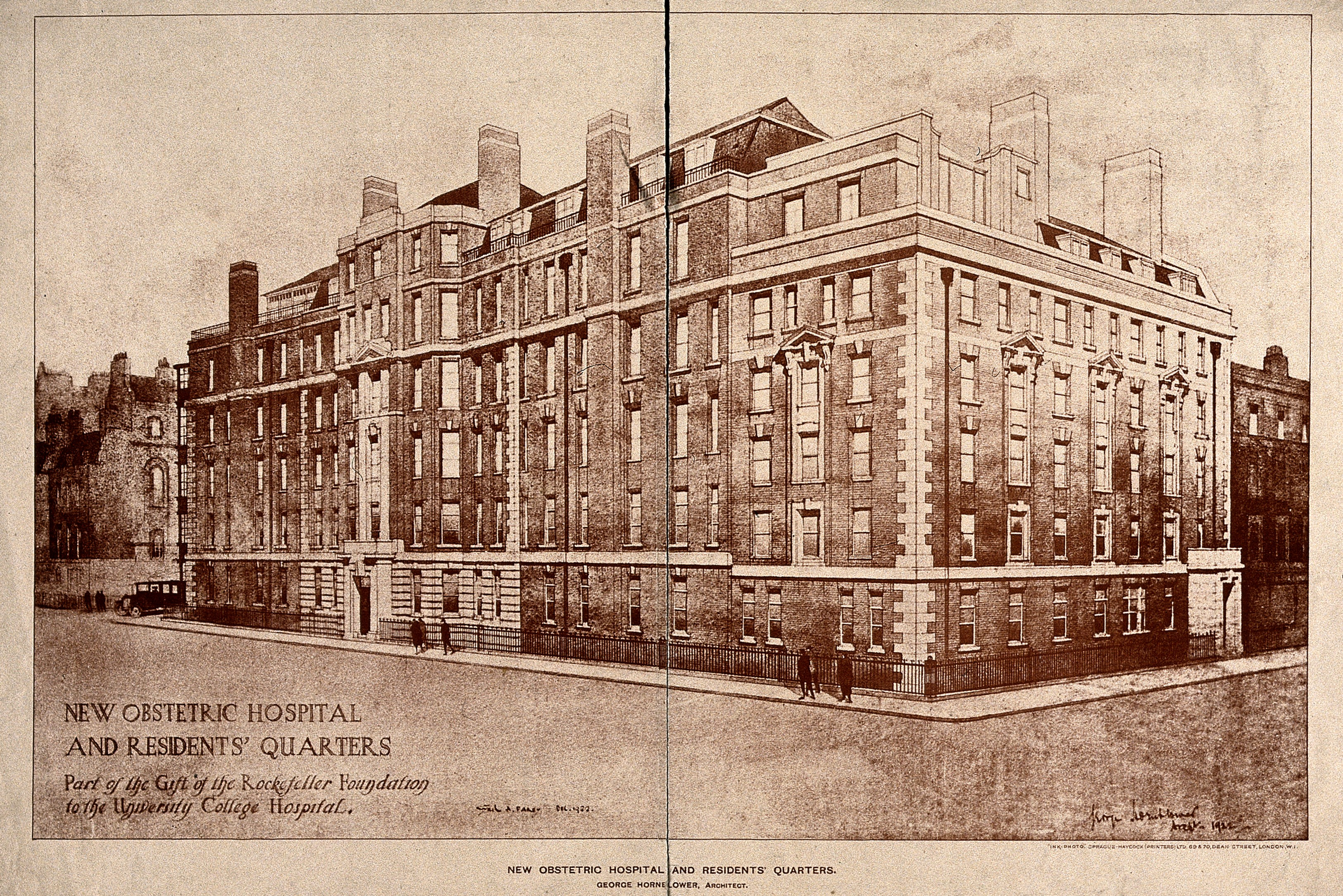 University College Hospital, London: the Maternity Hospital and Nurses' home, Huntley Street. Photo-lithograph, 1923, after C. A. Farey, 1922. Iconographic Collections Keywords: Cyril Arthur Farey; George Hornblower; University College Hospital (London); Rockefeller Foundation